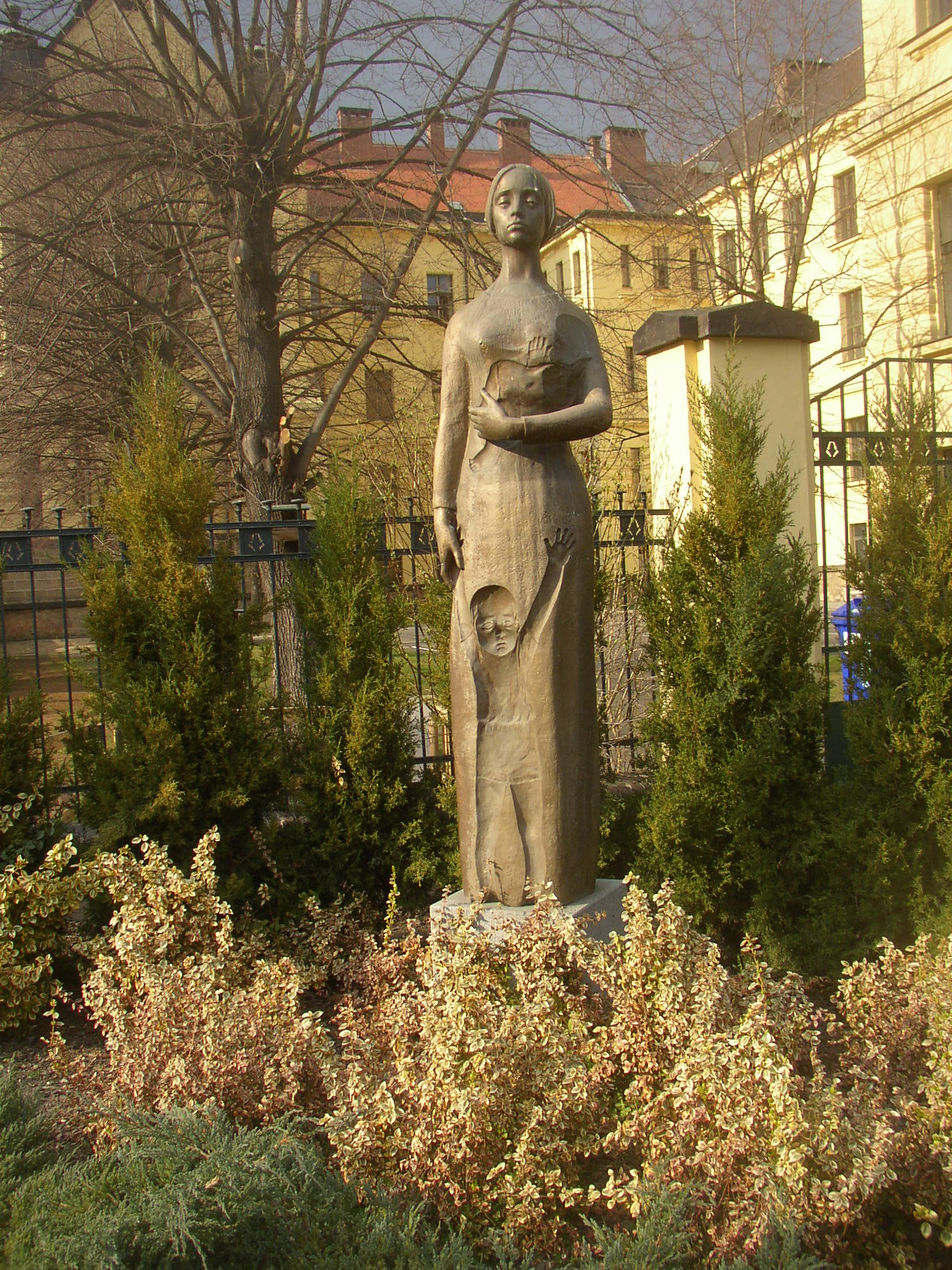 A Mother from Lidice - sculpture by Marie Uchytilová, November 17th Square, next to grammar school in Kladno, Czech Republic. It commemorates the fate of women and children from Lidice imprisoned in this school during extermination of their village by the Nazis in June 1942.